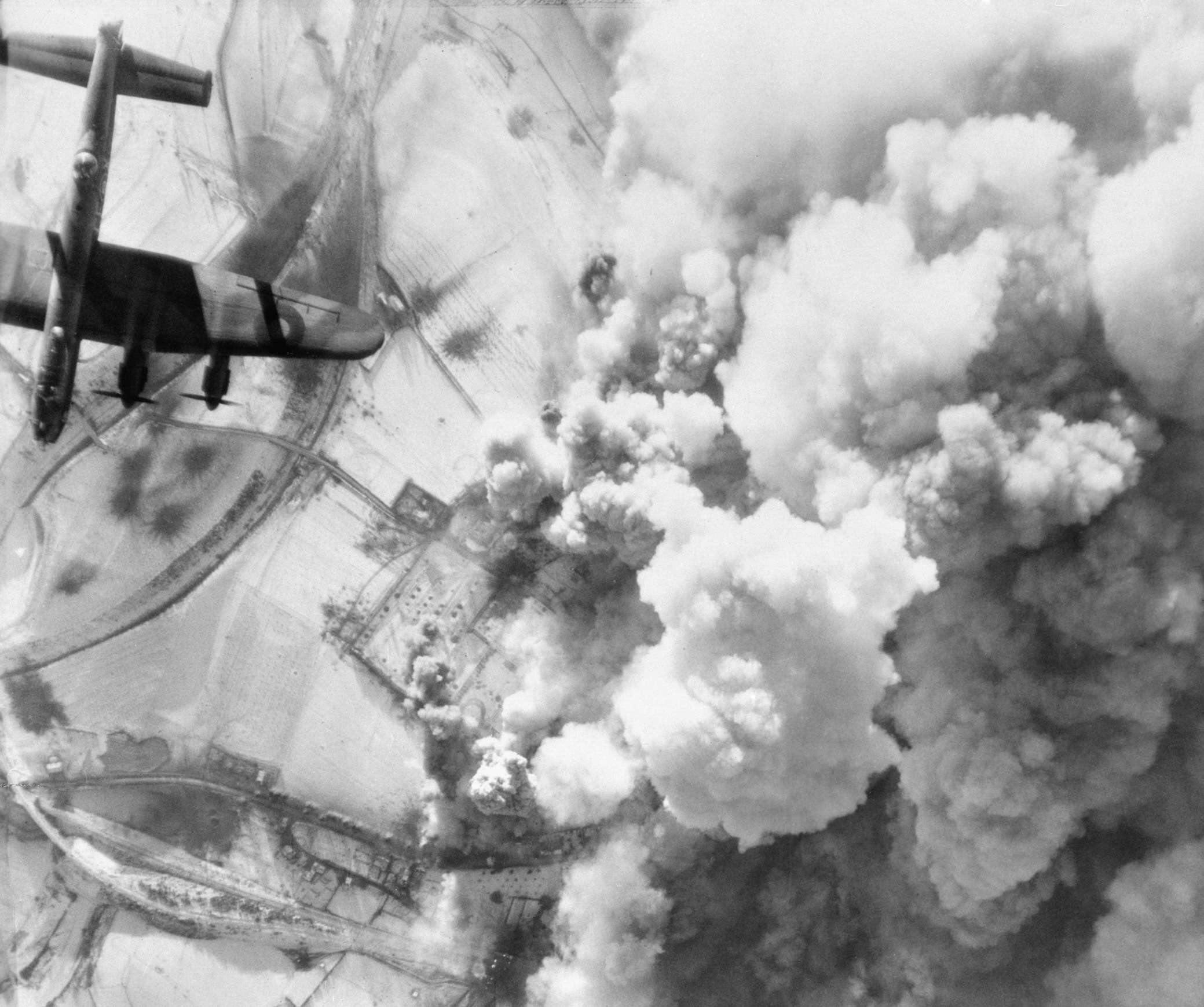 Aerial photograph of an attack by Royal Air Force Avro Lancaster bombers on St. Vith, Belgium, on 26 December 1944.